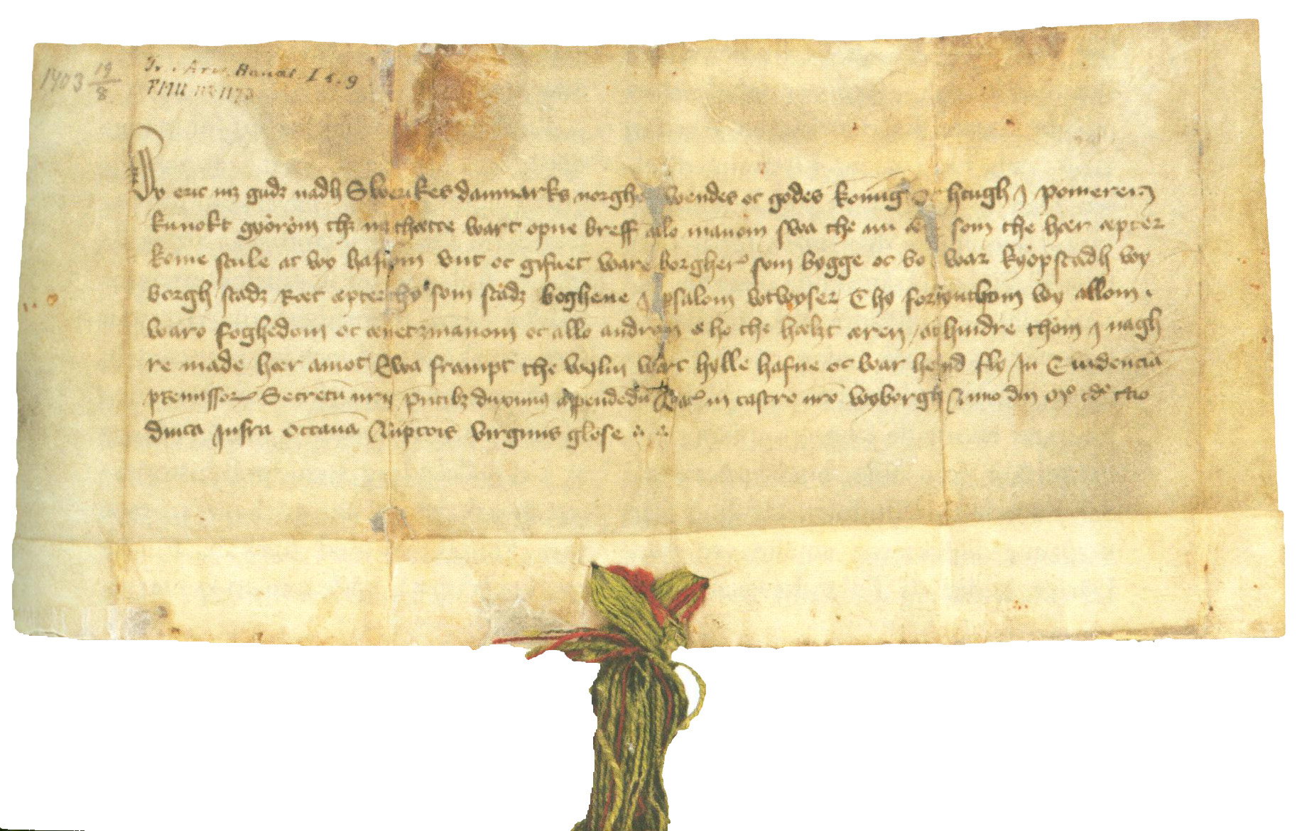 Charter for the city of Vyborg.